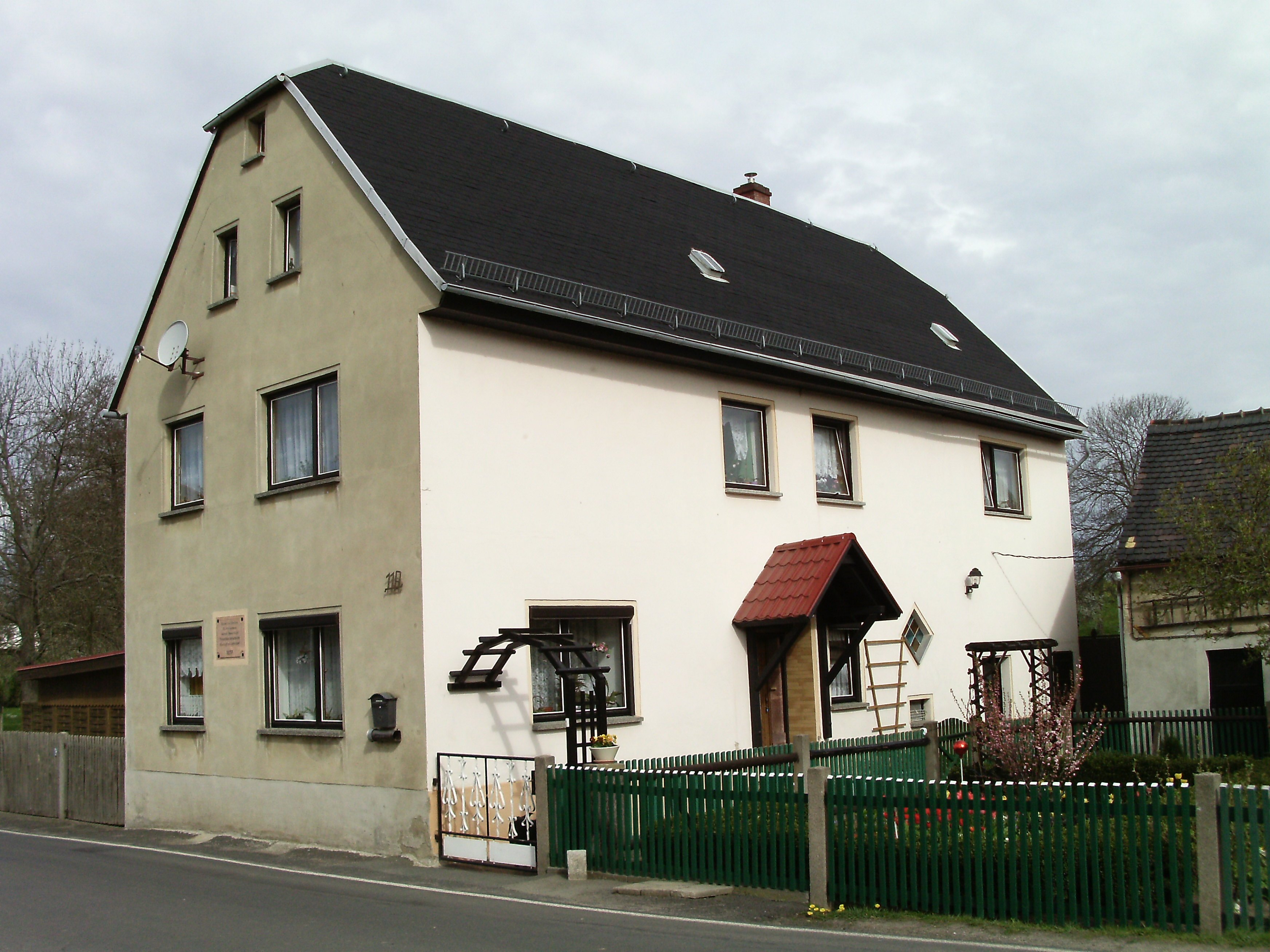 Old school building (from 1837) in Narsdorf (Leipzig district, Saxony)